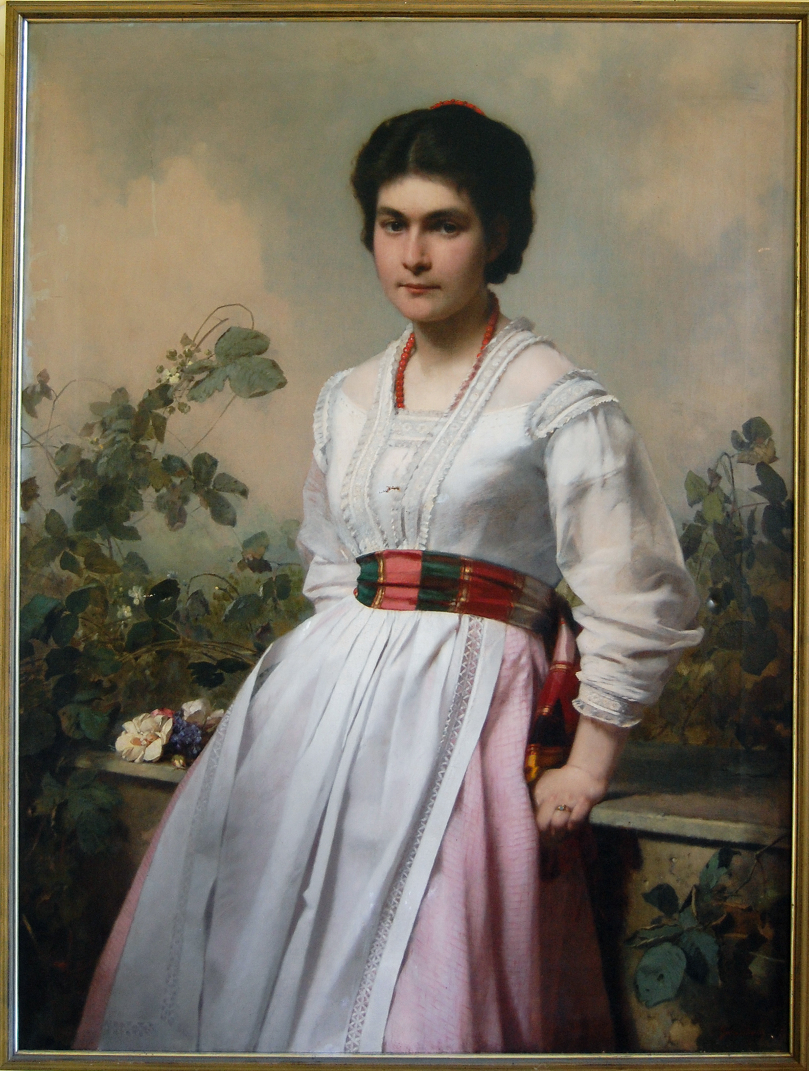 Else Sohn-Rethel, wife of the painter Karl Rudolf Sohn and daughter of Alfred Rethel, painting by Gottfried Julius Scholtz 1872